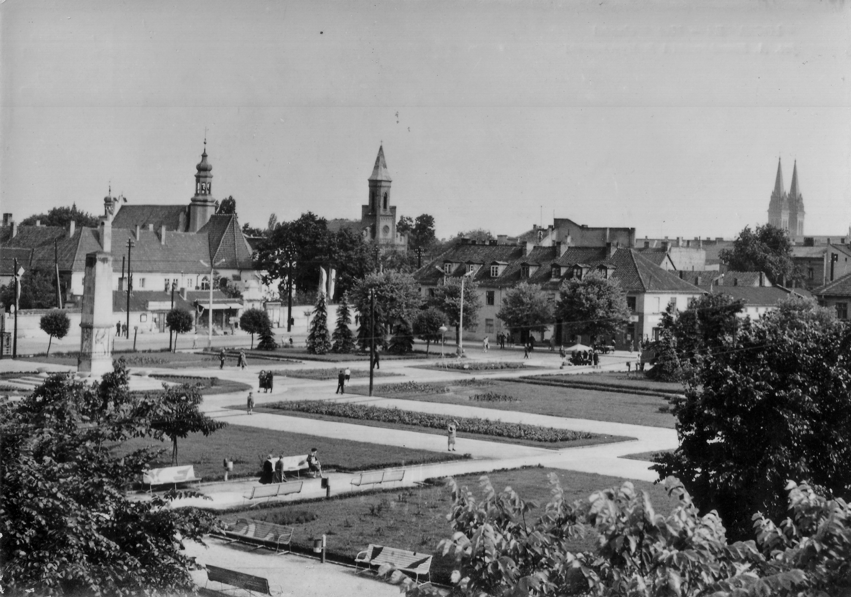 Plac Wolności (Liberty Square), Włocławek, Poland